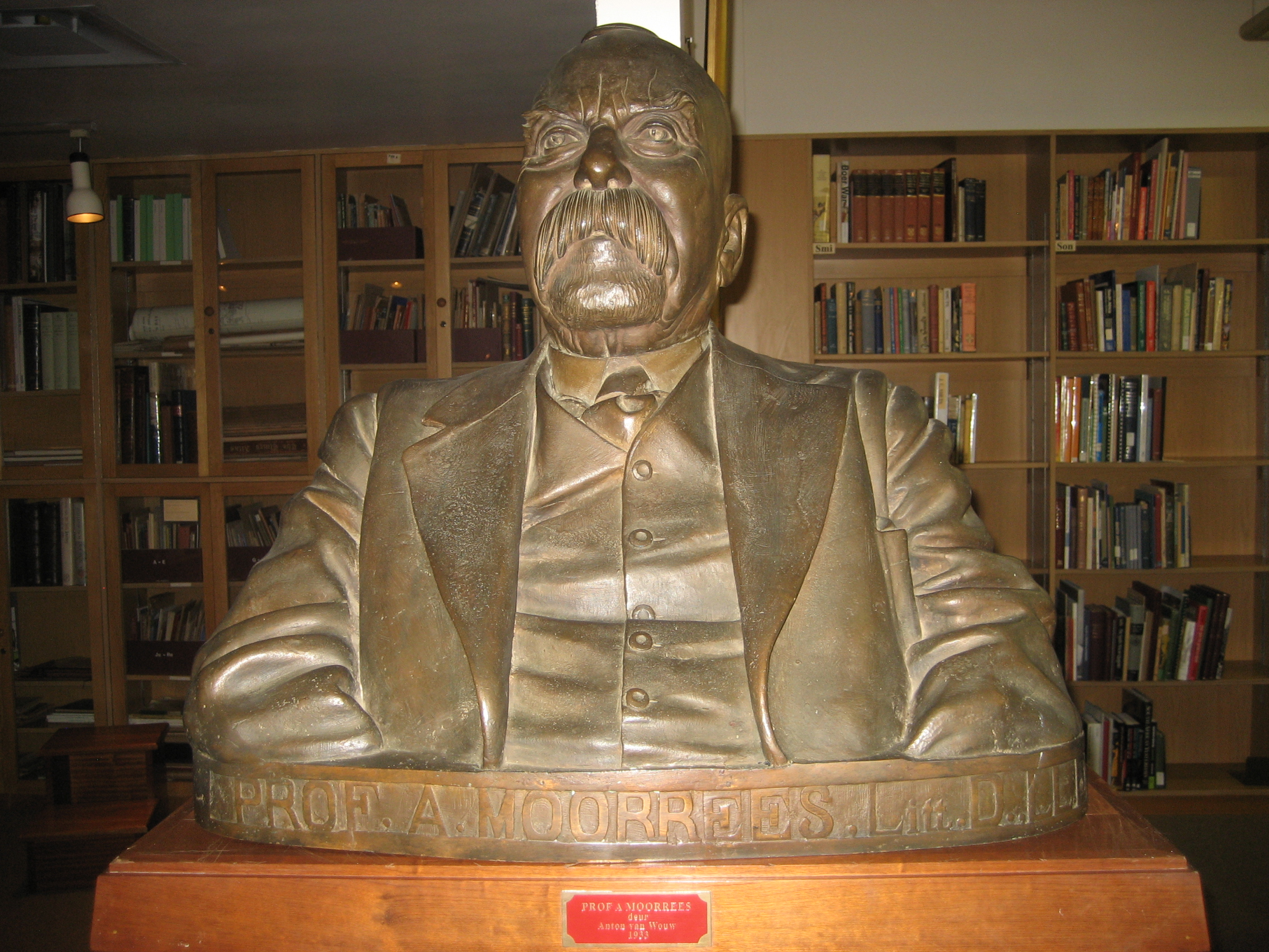 Professor Adriaan Moorrees (1855-1935), bust by Anton van Wouw (1933). Location: Special Collections, J.S. Gericke Library, Stellenbosch (South Africa)